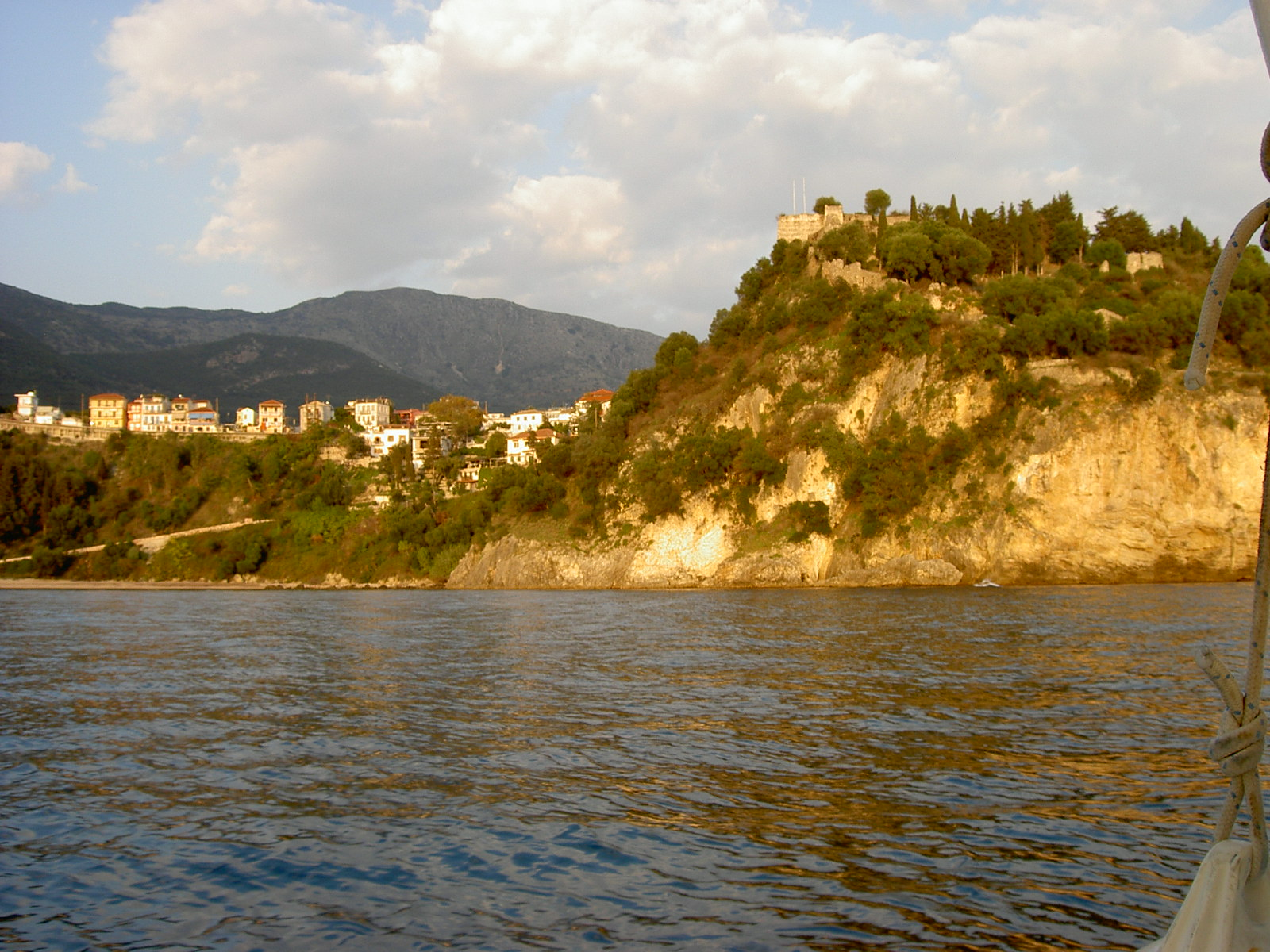 Parga and its castle in oct. 2005